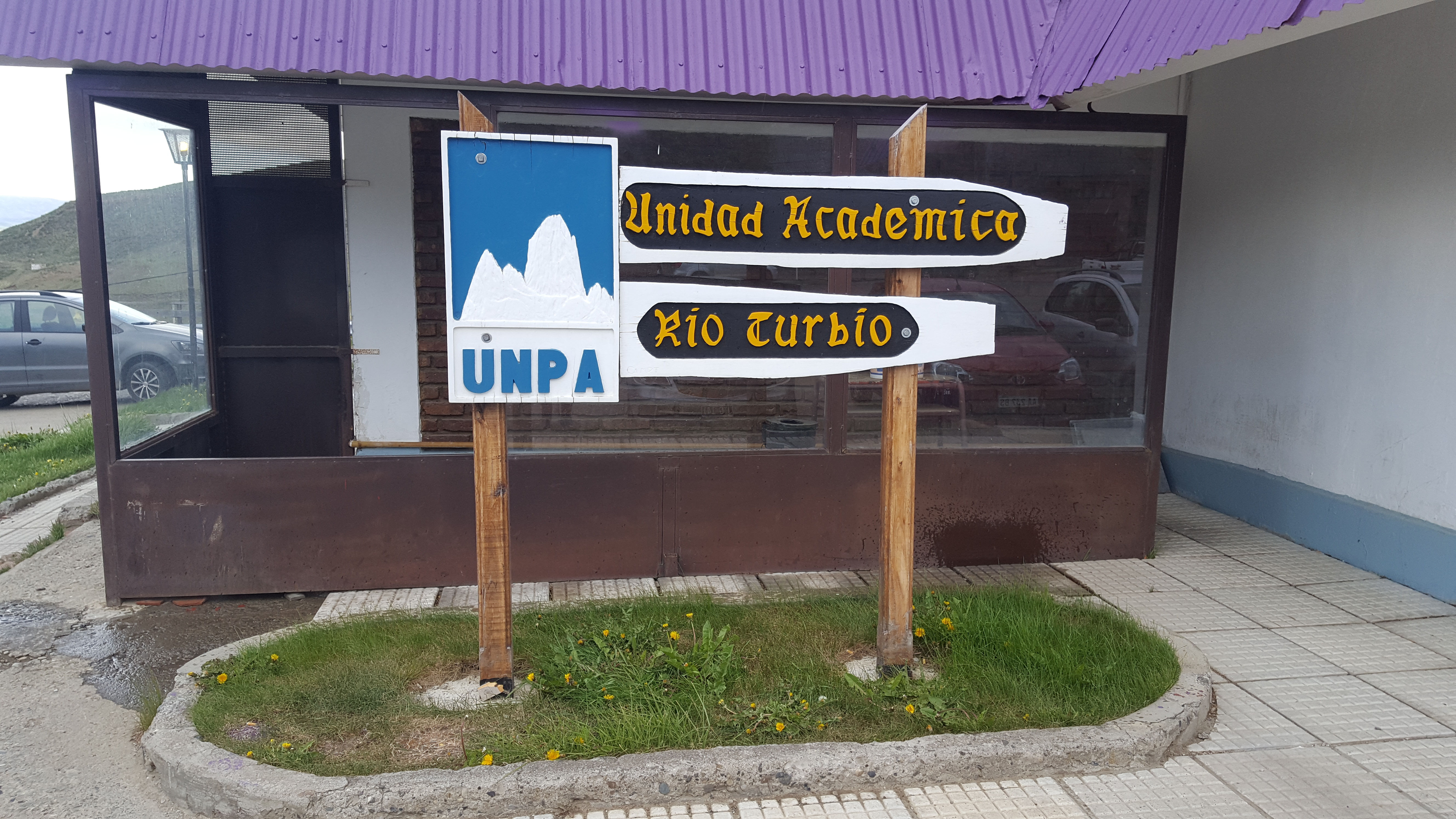 Entrada a la sede de Rio Turbio